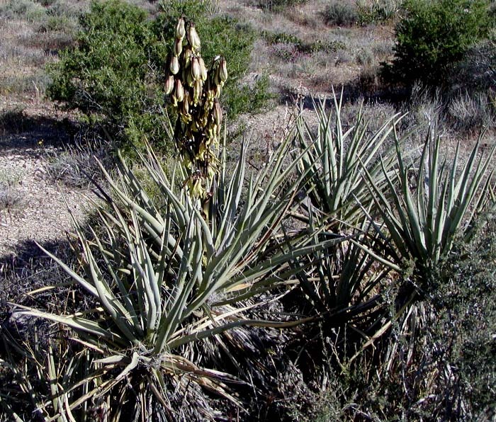 Photo of Yucca baccata in Red Rock Canyon, Nevada